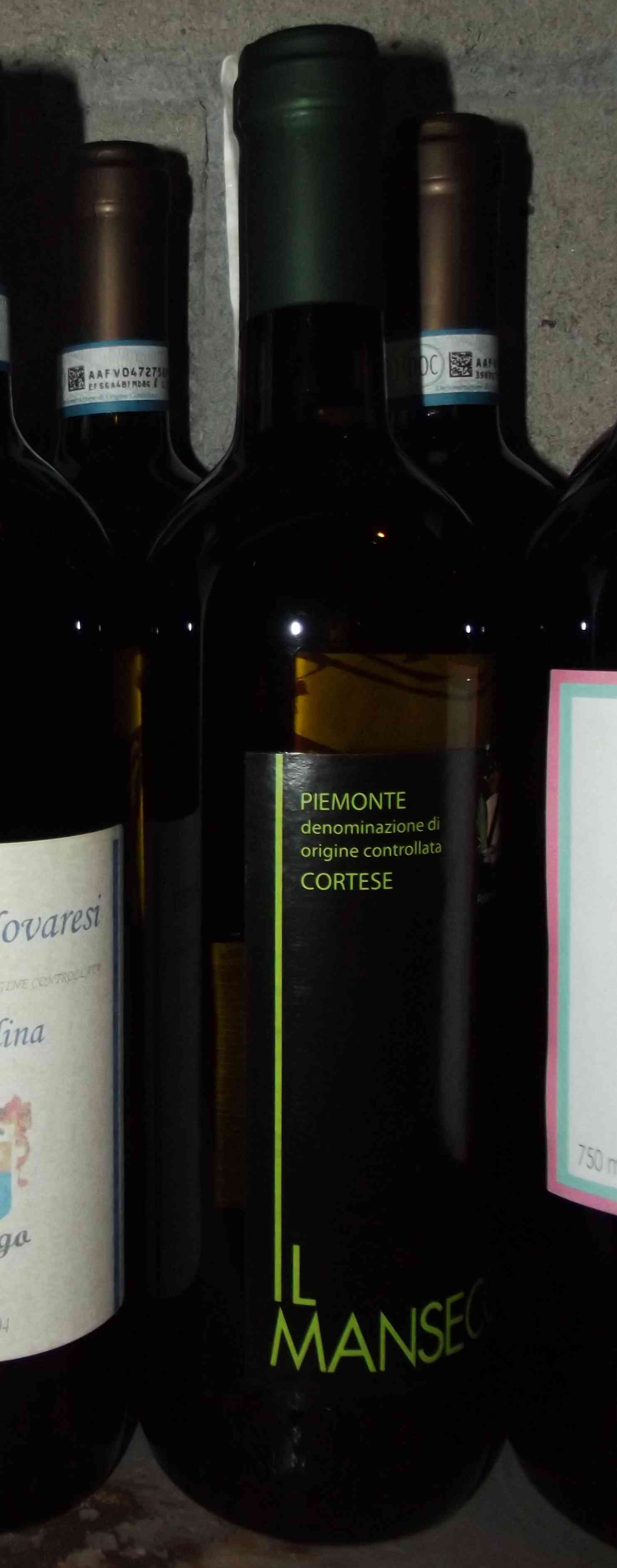 Piemonte DOC Cortese